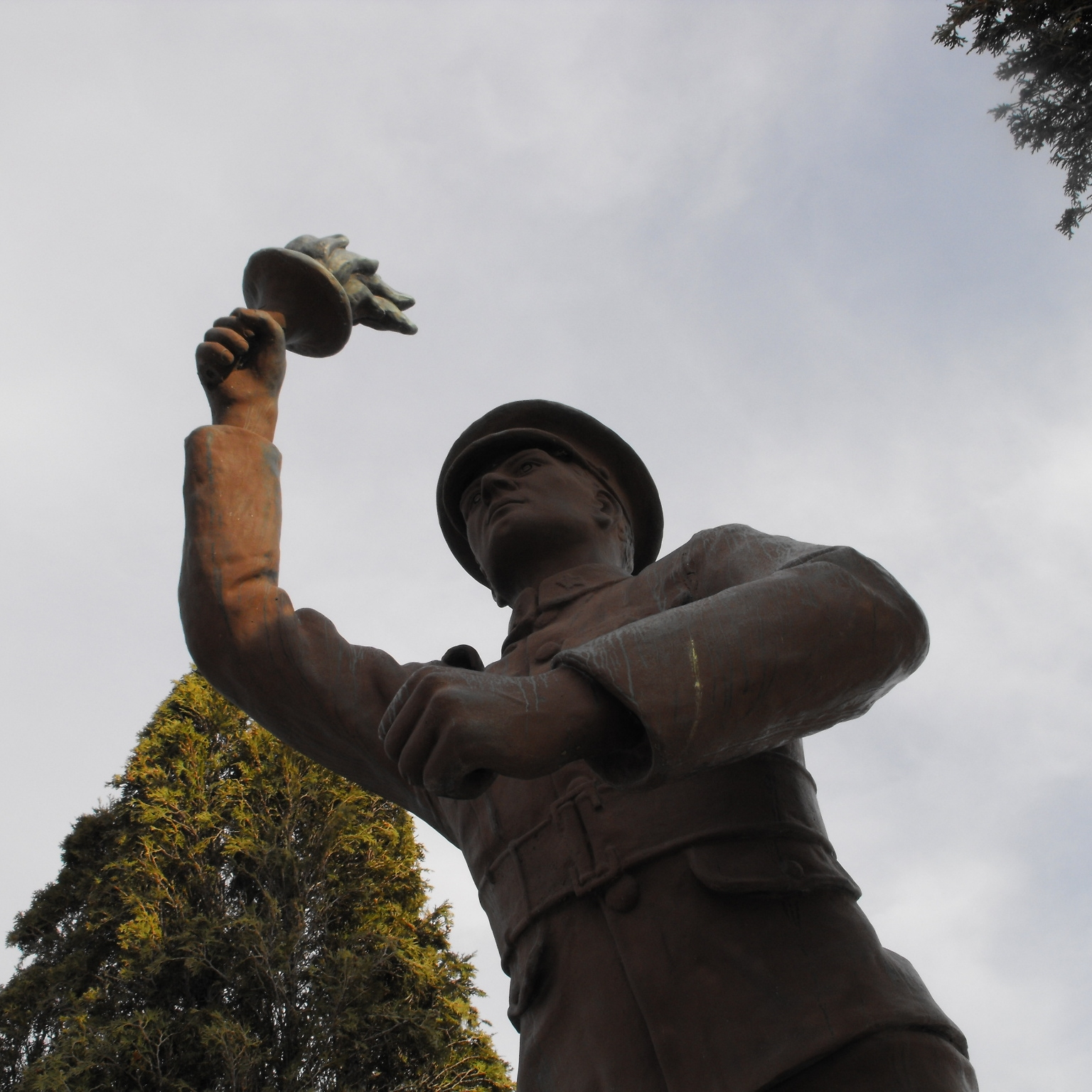 Detail of the cenotaph monument, Shubenacadie, Nova Scotia